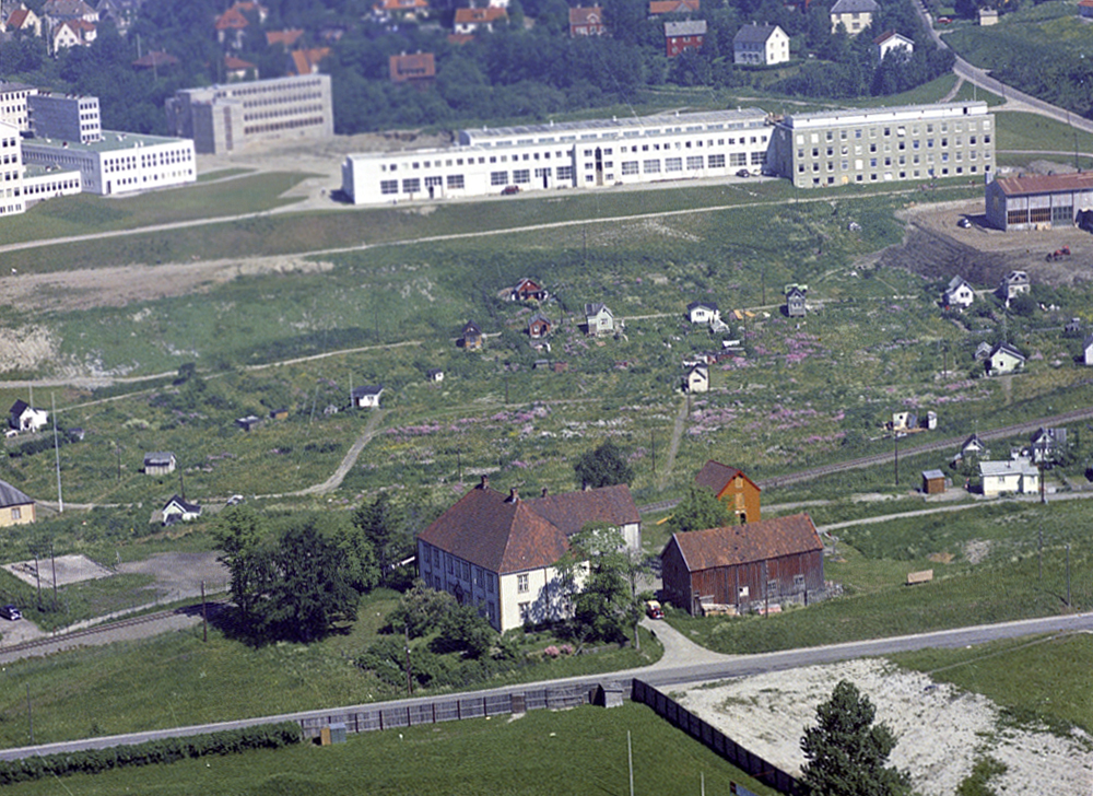 Lerchendal manor (built 1762, moved here around 1773-77), Trondheim, Norway